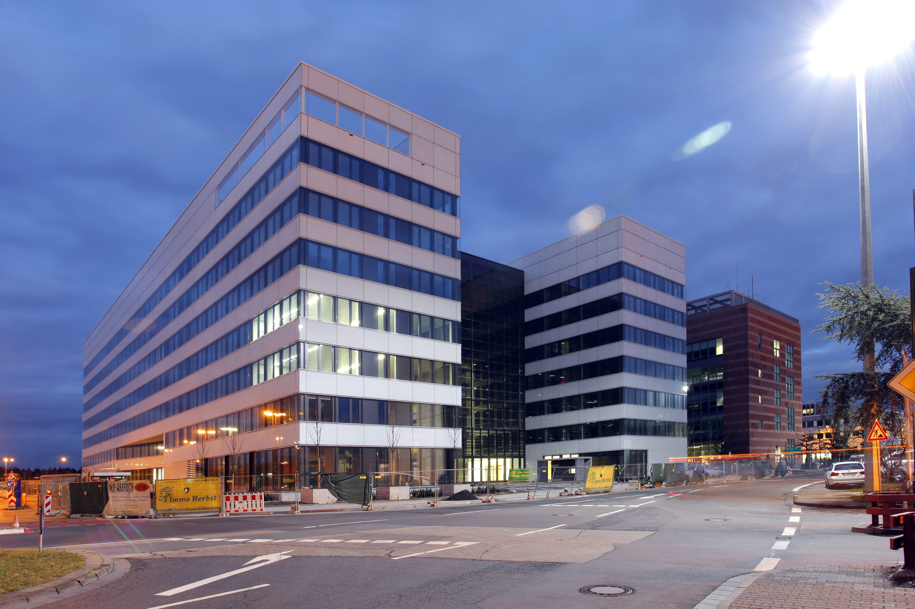 Head office of Fraport at night, March 2013